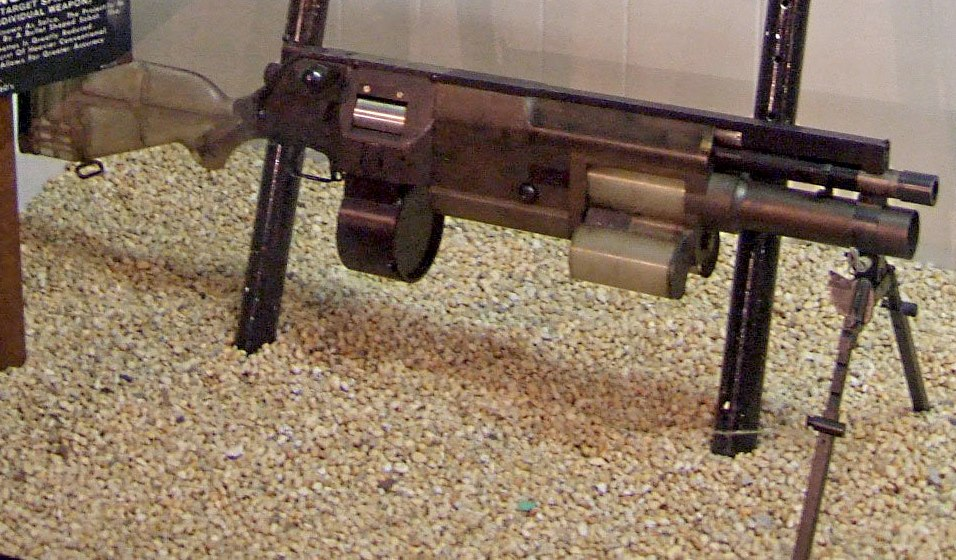 U.S. WEAPONS SYSTEM, 5.56mm Point Target SPIW (Special Purpose Individual Weapon) at the National Firearms Museum. Manufacturer: Harrington & Richardson (H&R)